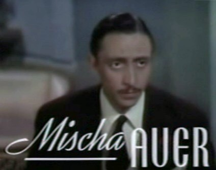 Cropped screenshot of Mischa Auer from the trailer for the film Sweethearts